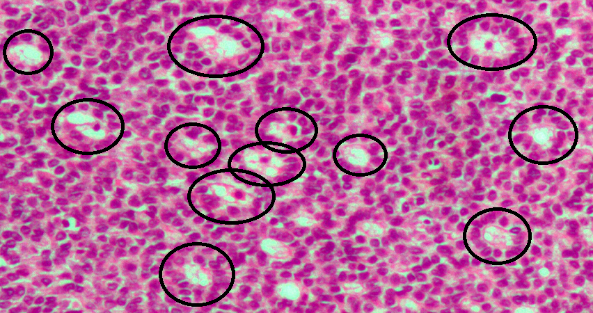 Call-Exner bodies marked with black ellipses in an intermediate-high magnification micrograph of a granulosa cell tumour, a type of sex cord stromal tumour. Some minor Call-Exner bodies are not marked. H&E stain. Original image without black circles See also Image:Granulosa cell tumour1.jpg - low magnification micrograph. Image:Brenner tumour2.jpg - another type of ovarian tumour that is solid.